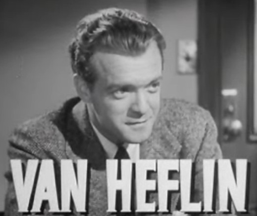 Cropped screenshot of Van Heflin from the trailer for the film Grand Central Murder.